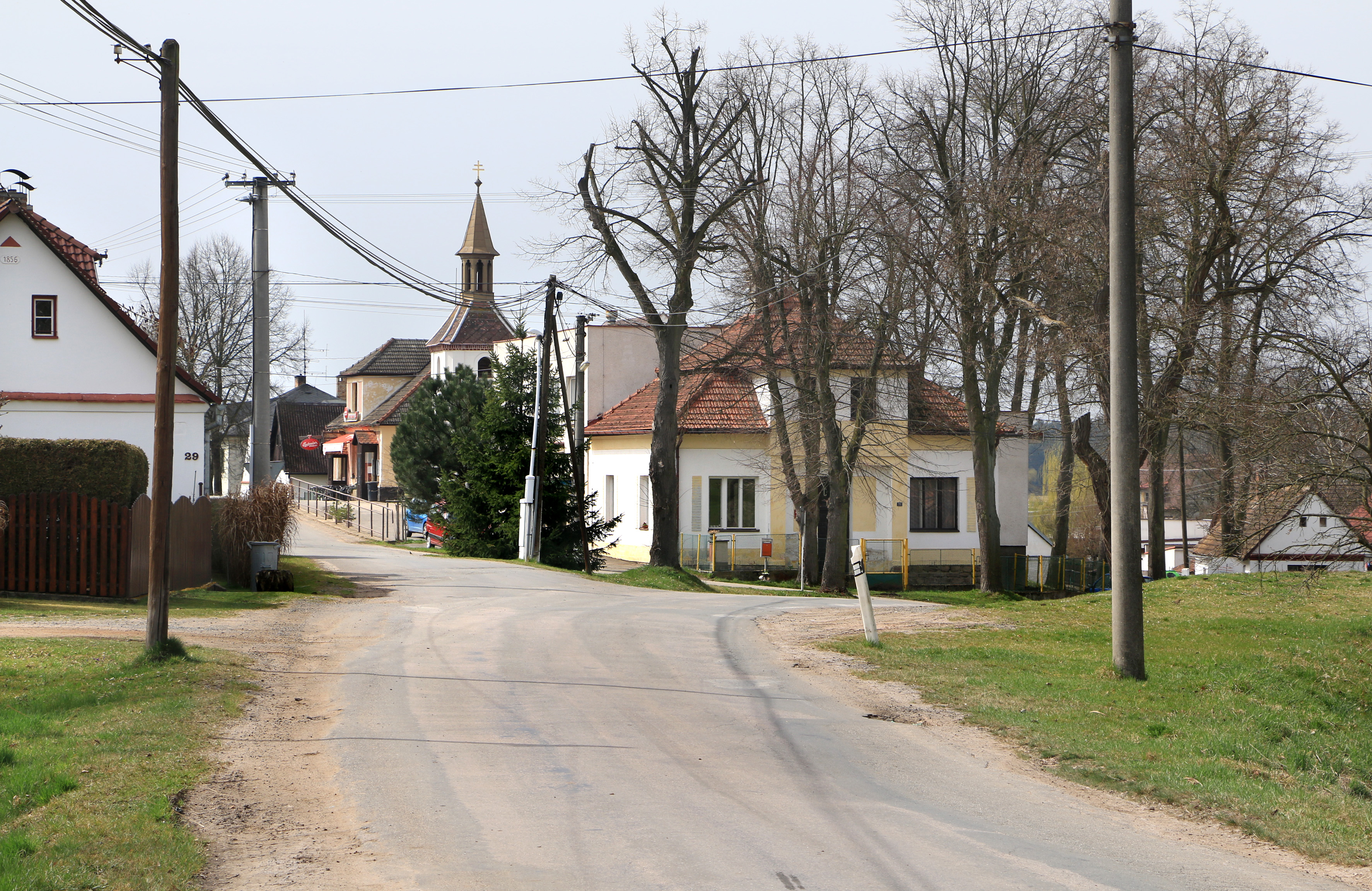 East part of Nová Ves u Chýnova, Czech Republic.